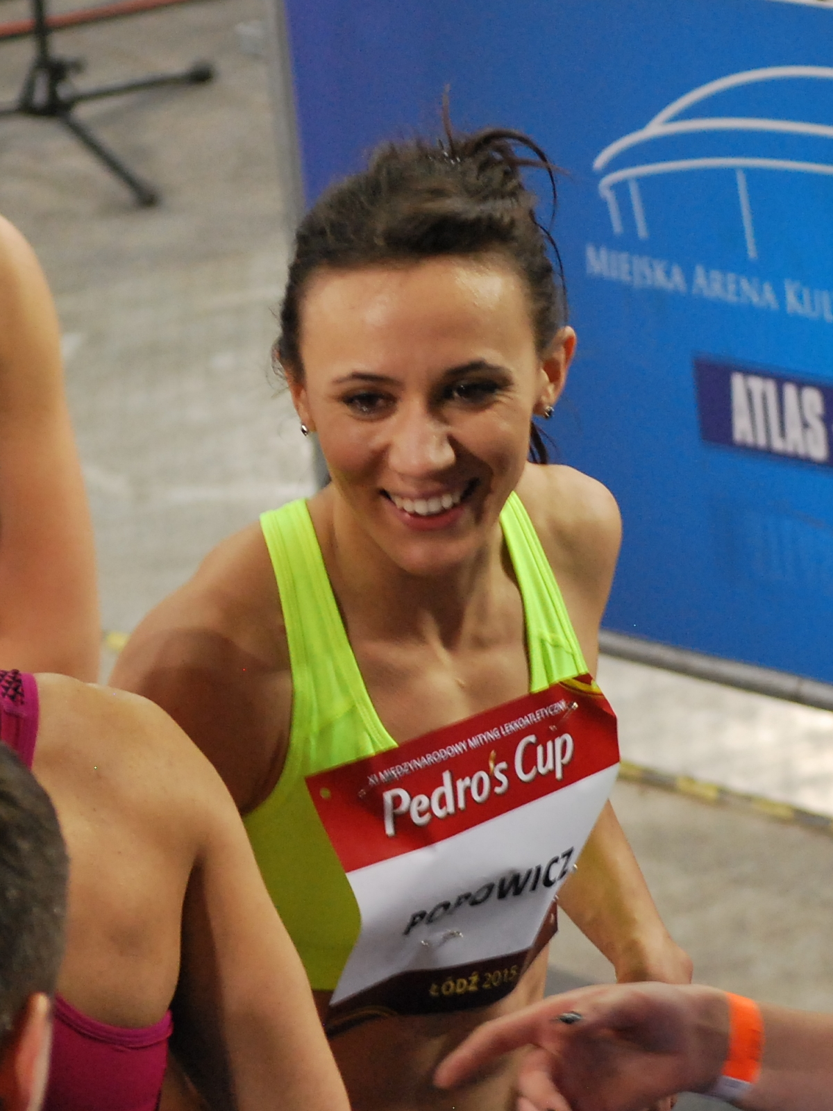 Pedros Cup 2015 Łódź, Marika Popowicz, sprinter from Poland